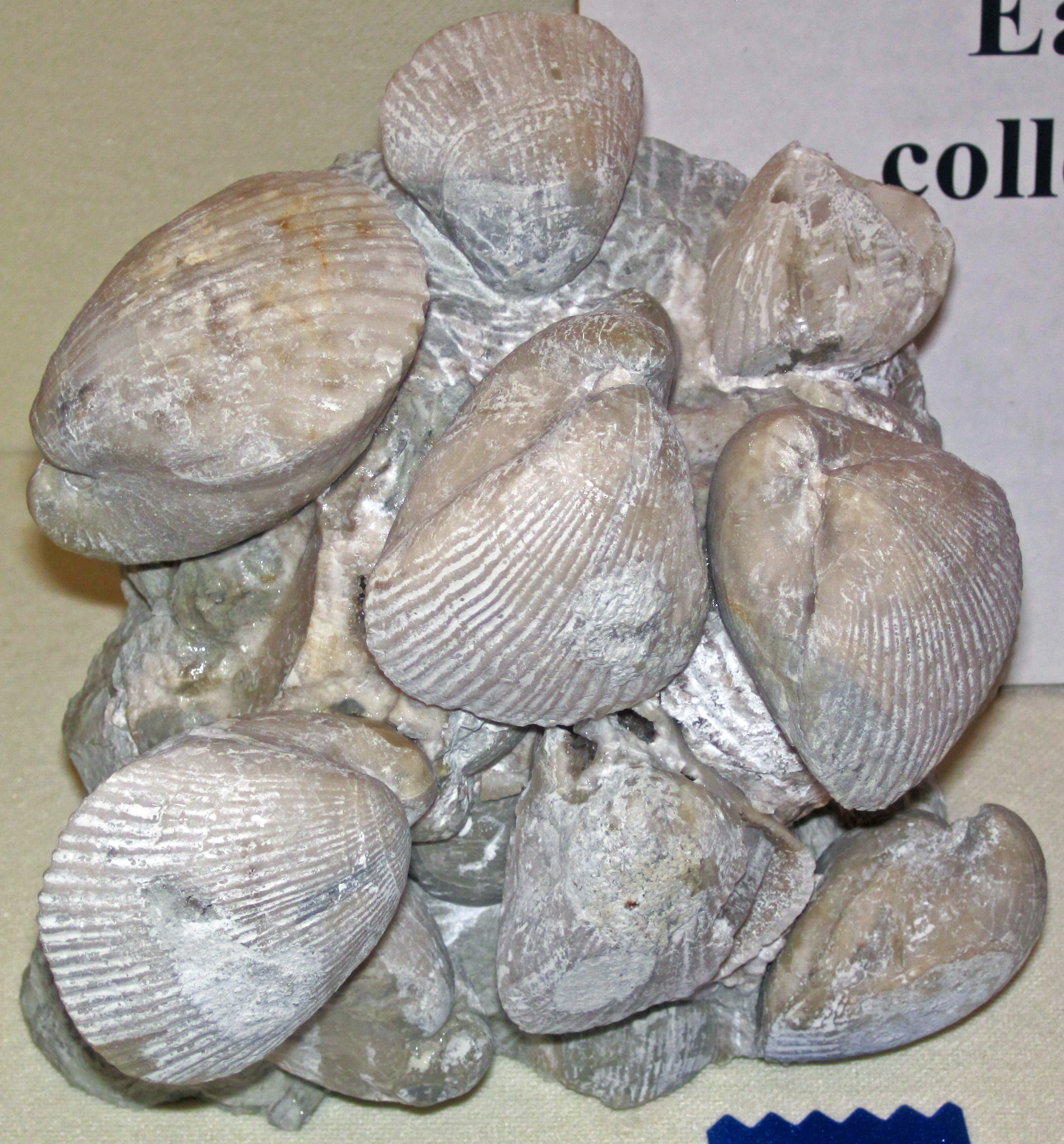 Kirkidium laqueatum (or Kirkidium cf. K. laqueatum) pentamerid brachiopods in limestone from the Silurian of Indiana, USA. Pentamerids are usually large brachiopods that are moderately common in Silurian dolostones of America's Midwest. The calcite shell has usually dissolved away, leaving an internal mold. The pentamerid specimens shown above have preserved calcite shells because the host rocks have not been dolomitized. Classification: Animalia, Brachiopoda, Rhynchonellata (Articulata), Pentamerida, Pentameridae Stratigraphy: bioherm facies of the Wabash Formation, Ludlovian Series, Upper Silurian Locality: upper part of the Pipe Creek Junior Quarry, Swayzee, east-central Indiana, USA